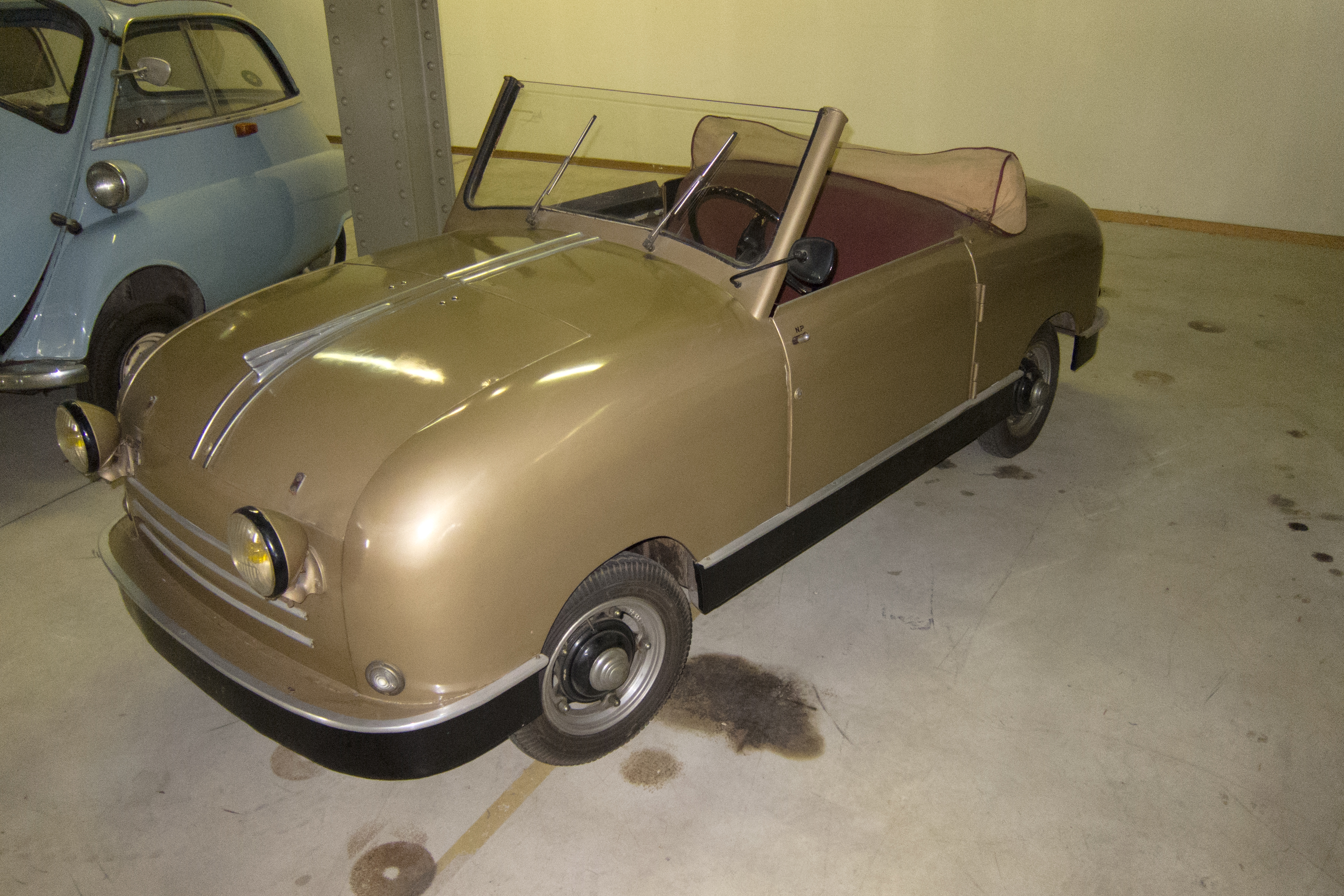 The D3 was a model produced by the French car maker Rovin.